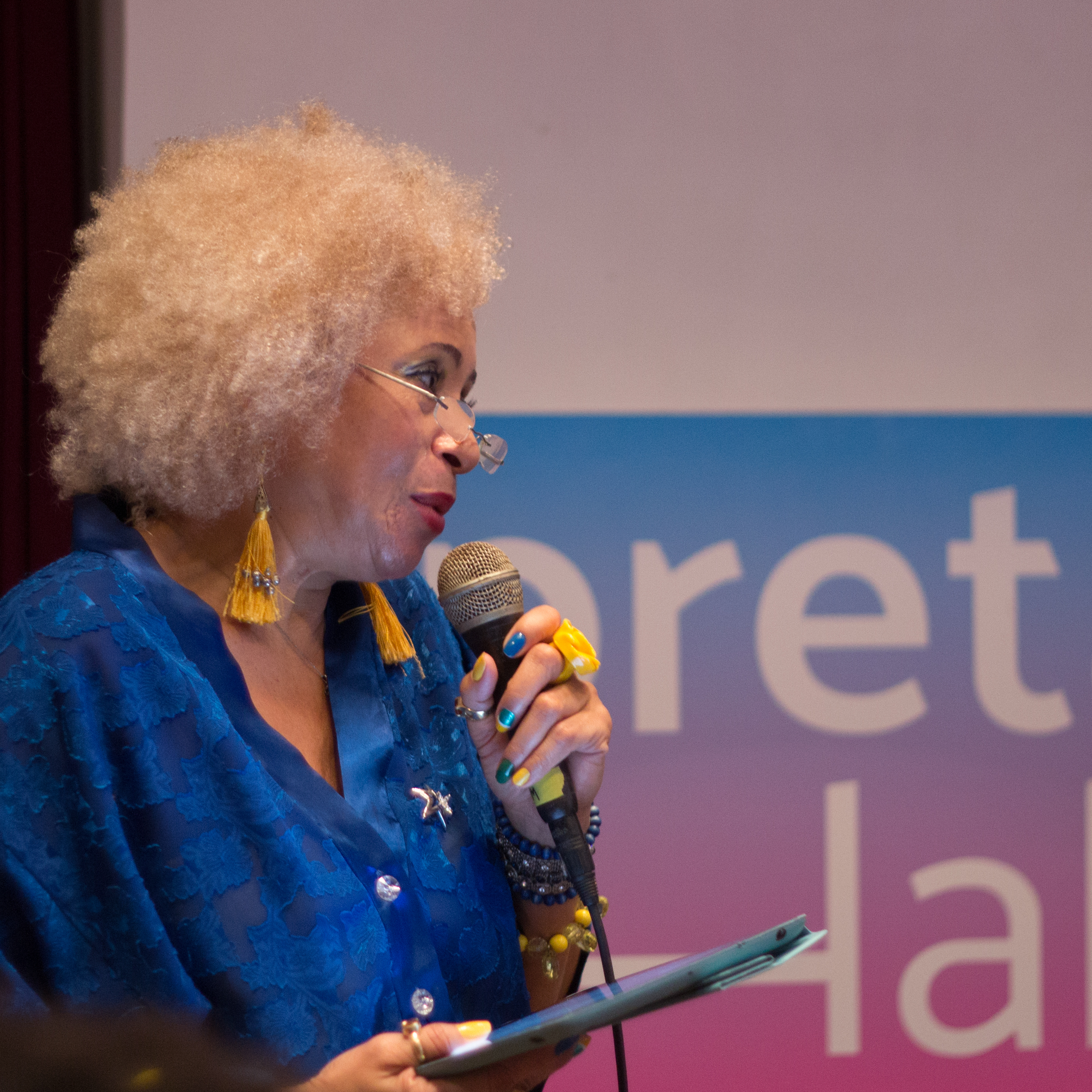 Prof Sonia Guimarães is a Brazilian Professor of Physics at the Instituto Tecnológico de Aeronáutica.